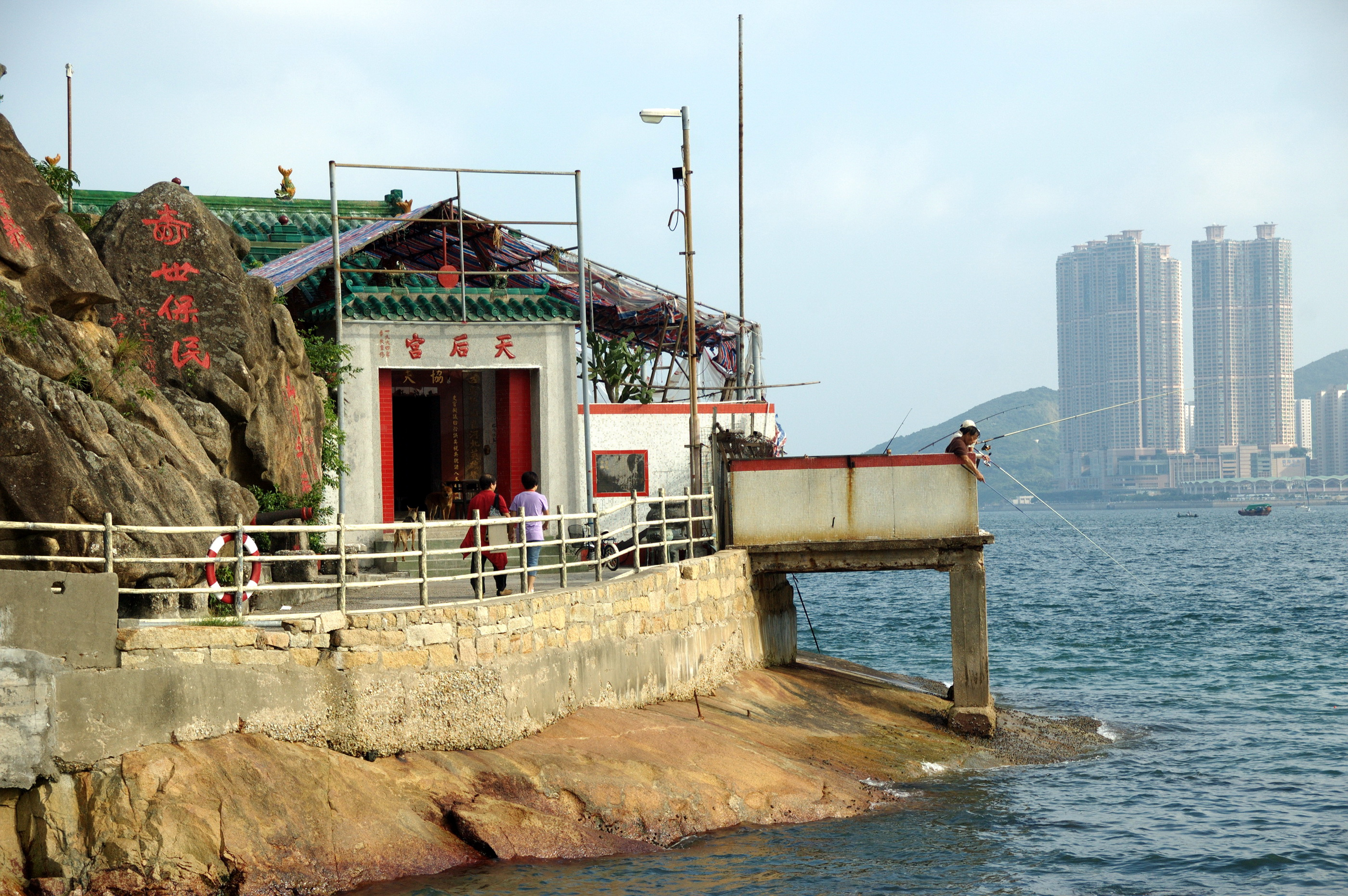 Tin Hau Temple in Lei Yue Mun, Kowloon, Hong Kong.